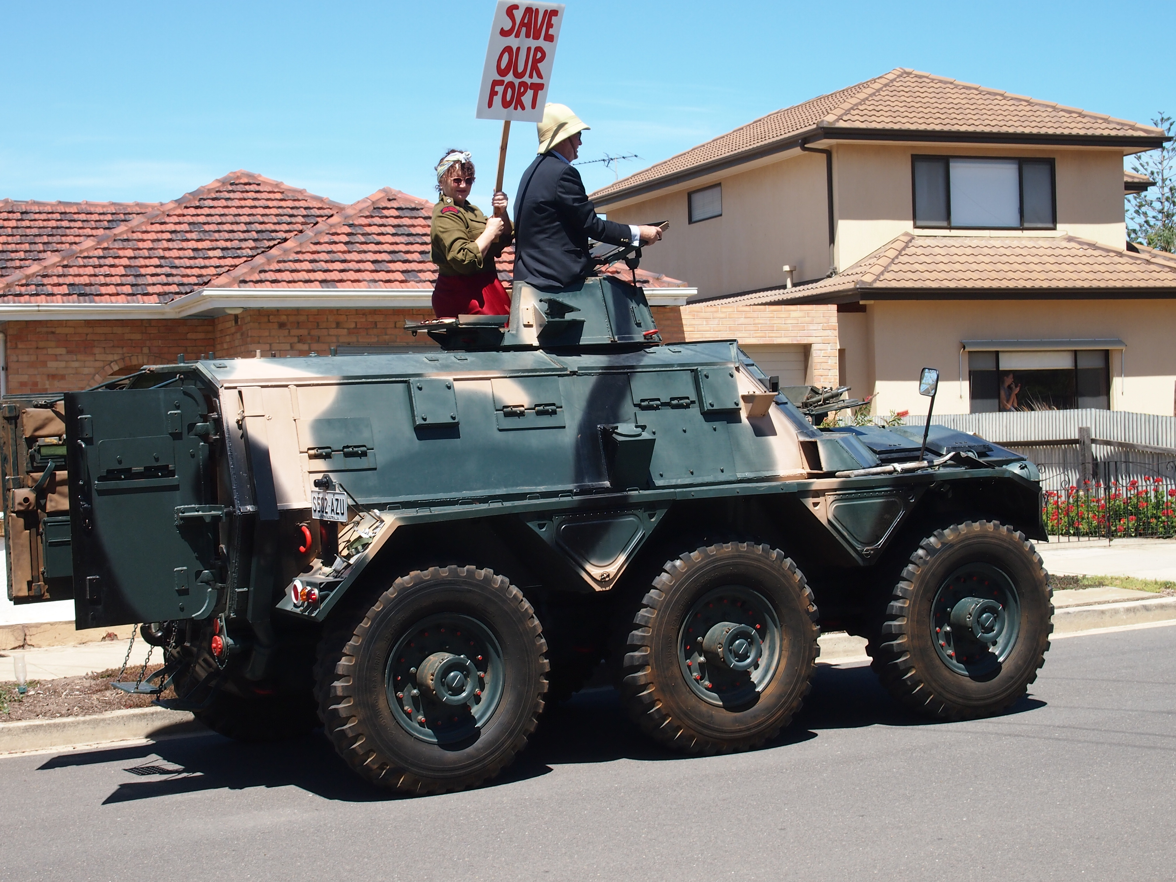 An Alvis Scaracen being used in a community protest organised by the National Trust of SA, against the sale of Fort Largs, South Australia, 25 October 2014. Standing in the turret are Emeritus Professor Norman Etherington, AM, president of the National Trust of SA, and singer Eileen Darley, whose performance later in the event included WWII-era songs such as We'll Meet Again and Lili Marleen. Original filename = PA254365.JPG .